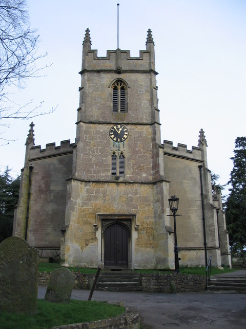 All Saints' parish church, Weston, Bath, Somerset, seen from the west